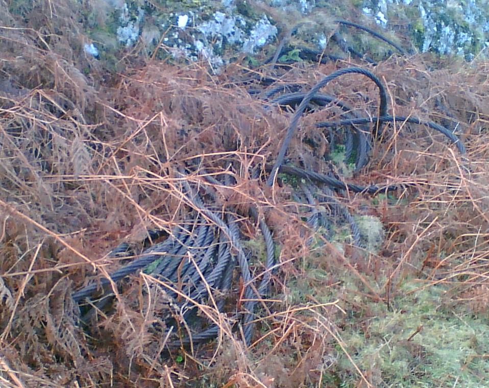 Photo of remains of Dolgarrog incline cables.